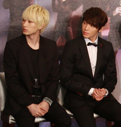 Super Junior-D&E (2011), at Kaohsiung Arena, Taiwan.